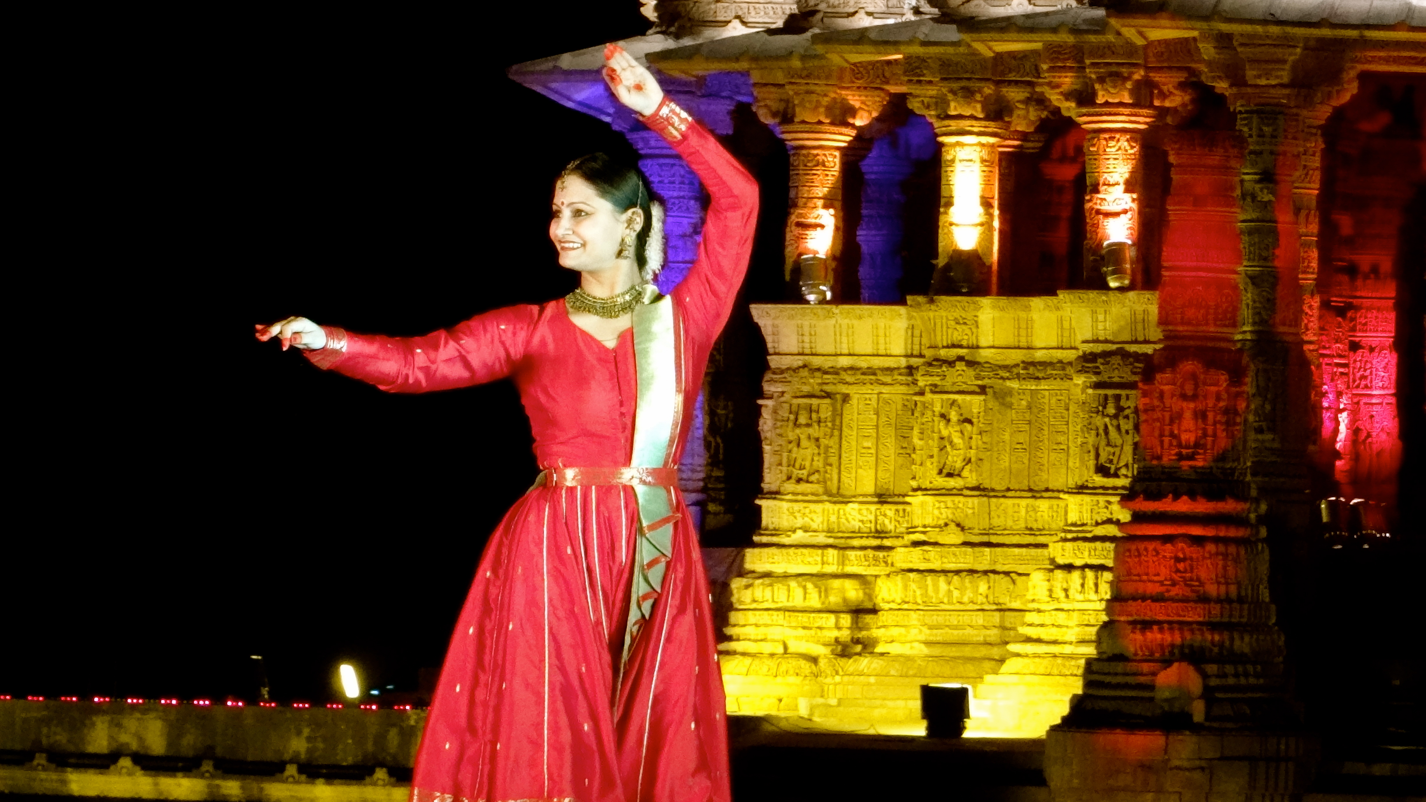 Live concert at Modhera Dance Festival